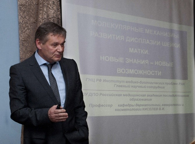 В. И. Киселёв во время лекции